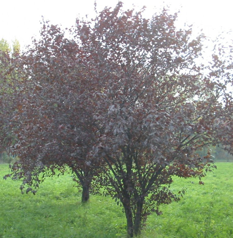 Made by me on October 2003, Bucharest, Romania